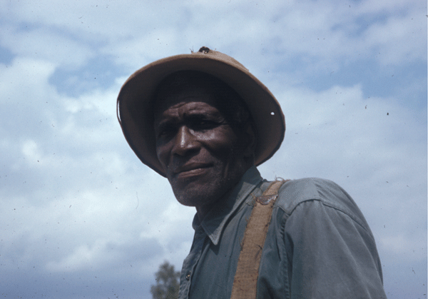 One of the unwitting human test subjects of the Tuskegee Syphilis Study